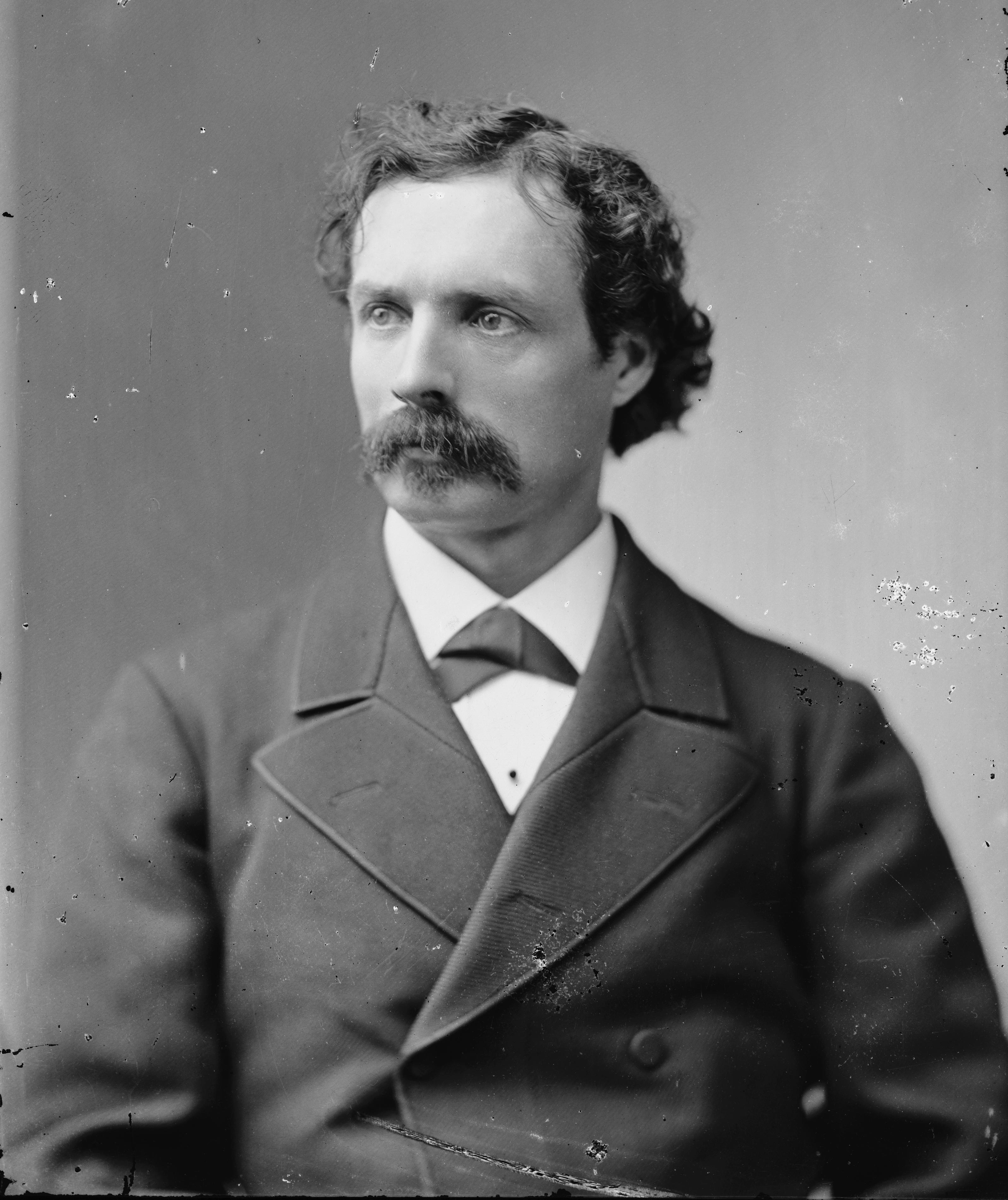 Whitelaw Reid. Library of Congress description: "Whitelaw Reid".